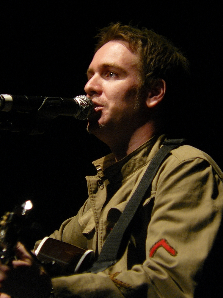 Stephen Lynch in Cologne (2008)